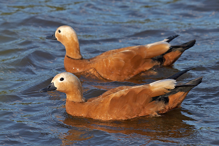 Two Ruddy Shelducks photographed in Gdańsk, Poland